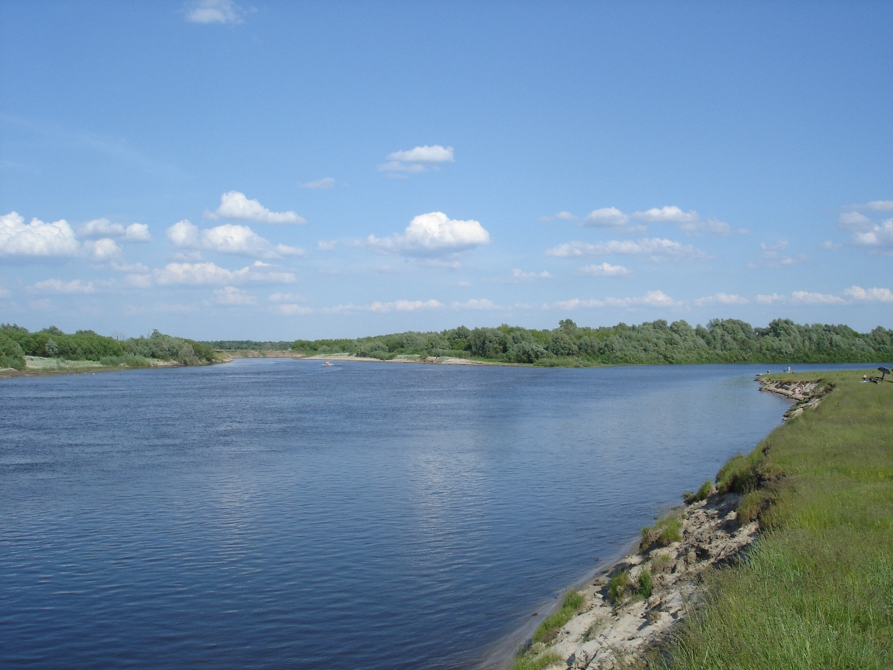 The mouth of Tsna river. Tsna is right and the left is already Moksha.